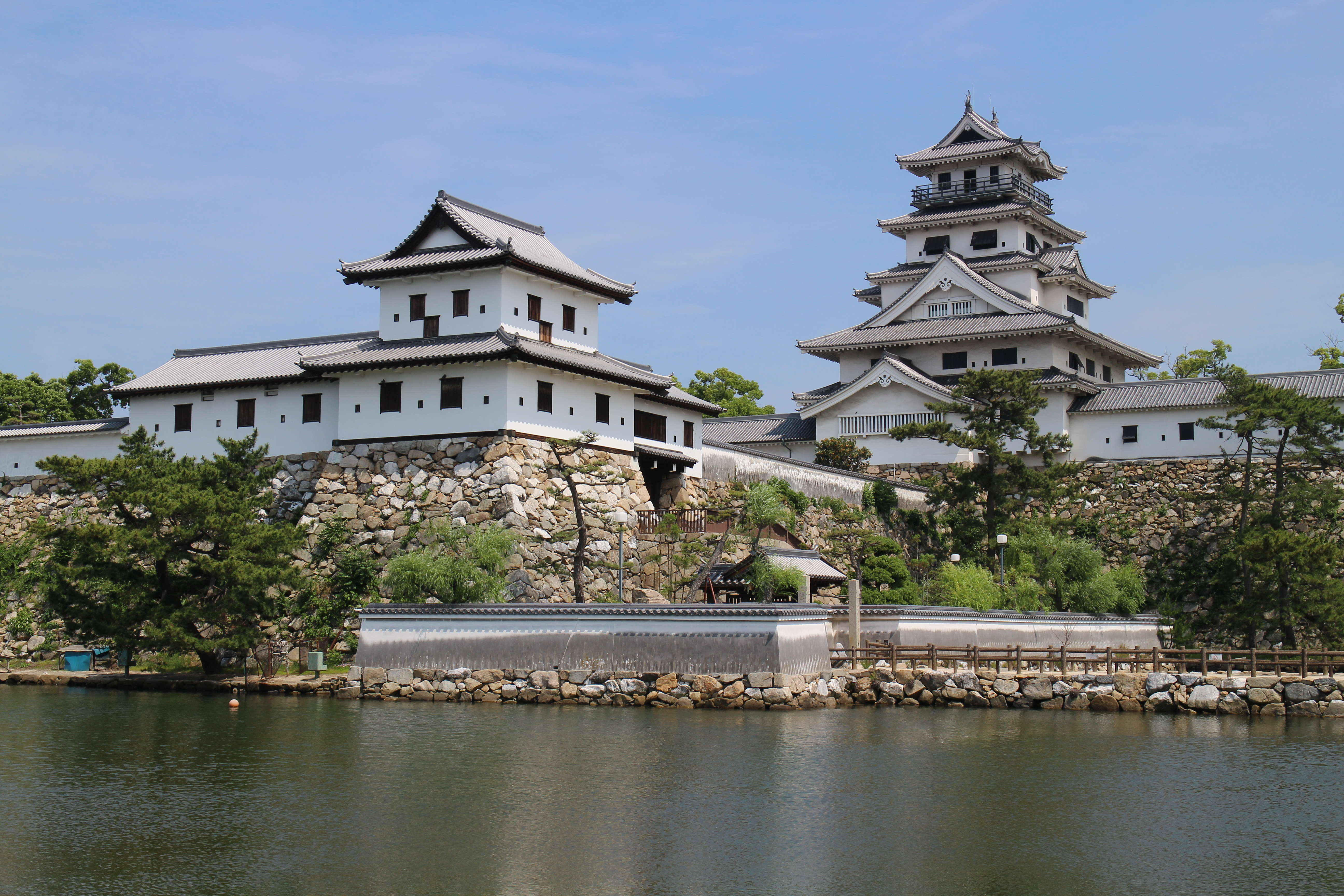 Imabari Castle Keep Tower